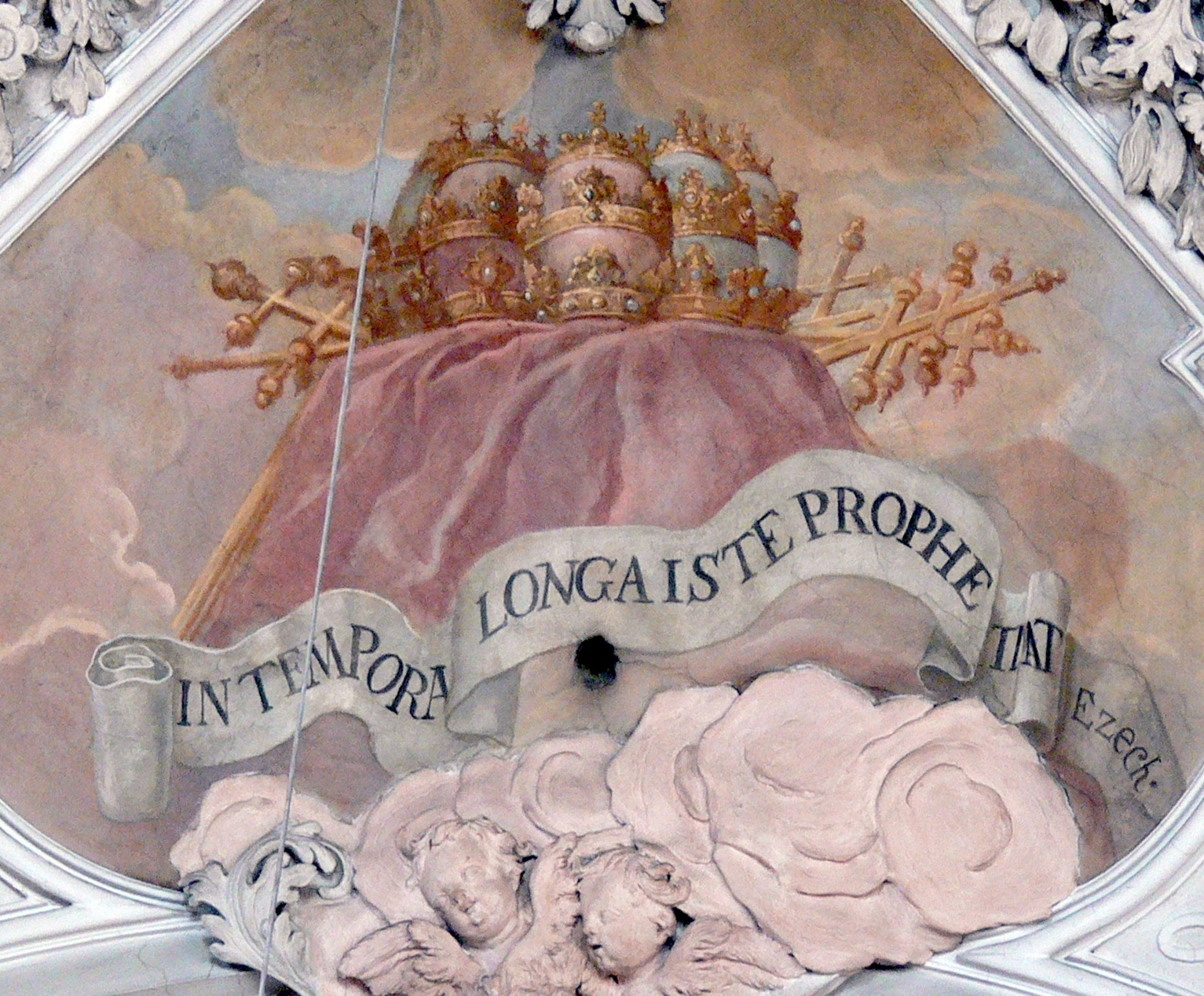 Metten ( Lower Bavaria ). Abbey church: Fresco ( 1722/24 ) by Wolfgang Andreas Heindl - Emblem of saint Malachy with quotation of the book Ezechiel: "IN TEMPORA LONGA ISTE PROPHETA" ( This prophet made prophecies for a long time ).